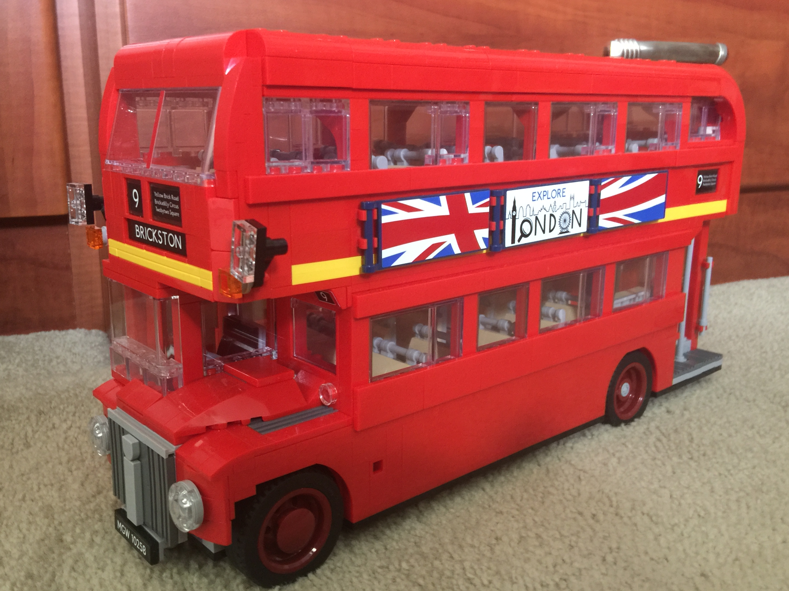 A picture of the over 1,600 piece London bus.